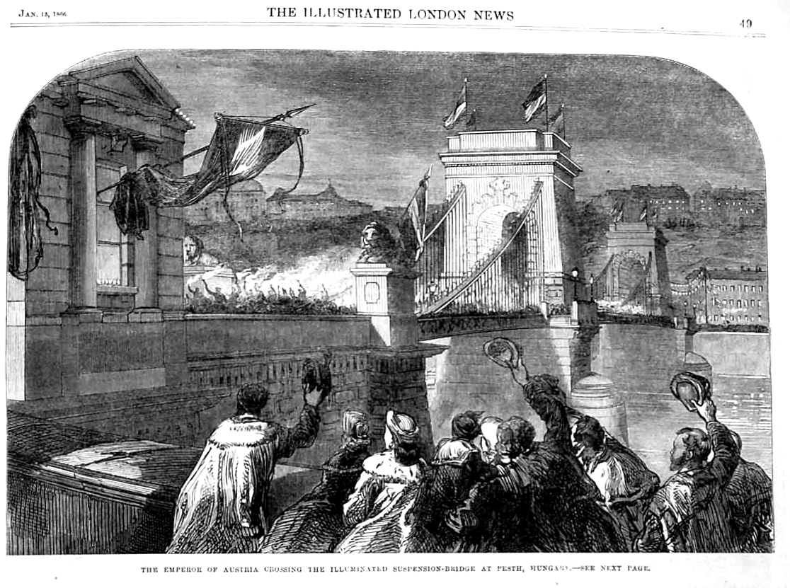 Emperor Crossing the Bridge at Pesth 1866. Illustrated London News